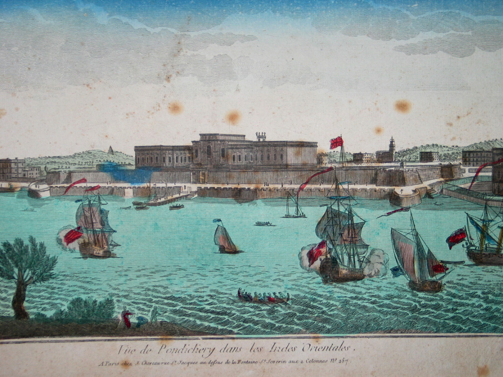 A view by J. Chereau, c.1780 (with modern hand coloring); *the whole engraving* Source: ebay, May 2008